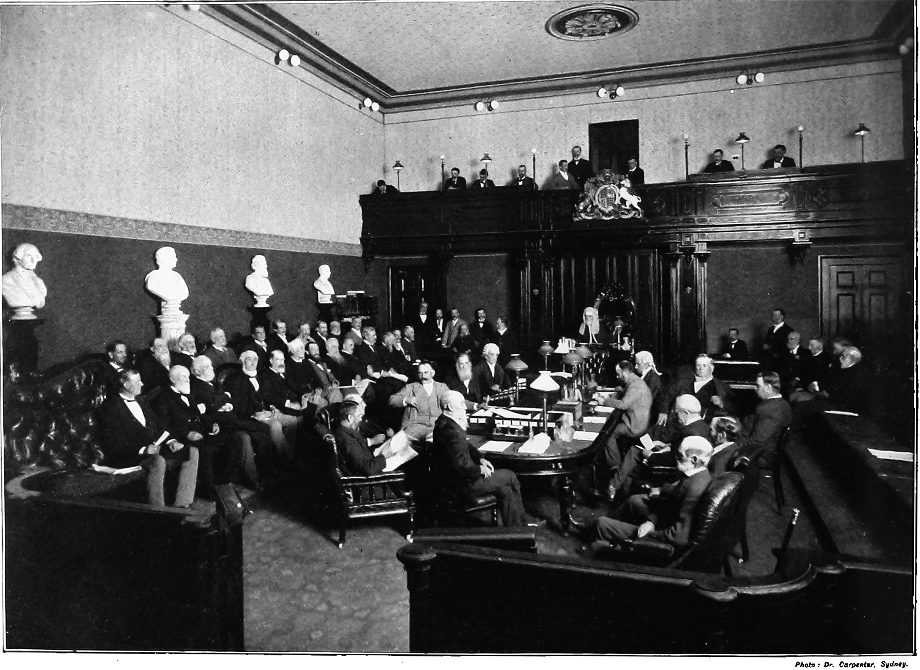 "THE LEGISLATIVE COUNCIL OF NEW SOUTH WALES IN SESSION. Here we have a most interesting representation of the Legislative Council, or Upper House of the Parliament, of New South Wales. The Council consists of sixty-four members appointed for life by the Crown. It is remarkable that in every British State a "Second Chamber" has been established, and has maintained its position with the general assent of all persons concerned. The President of the Council, the Hon. Sir John Lackey, K.C.M.C, is in the Chnir. Among the members present may be distinguished on the right of the Chair the Hon. Andrew Garran, Vice-President, and on the left the Hon. A. H. Jacob. Chairman of Committee. Many other well-known members will be recognised by those acquainted with Sydney life. The officers present, including the "Clerk of Parliaments" and the Usher of the Black Rod, recall the ancient traditions of the House of Lords."